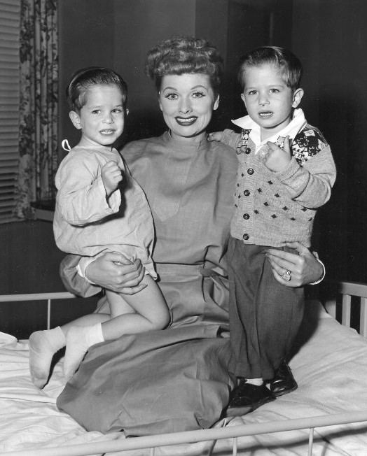 Lucille Ball with the twin boys who played Little Ricky as a toddler on I Love Lucy. Lucy is holding Mike (left) and Joe Mayer.